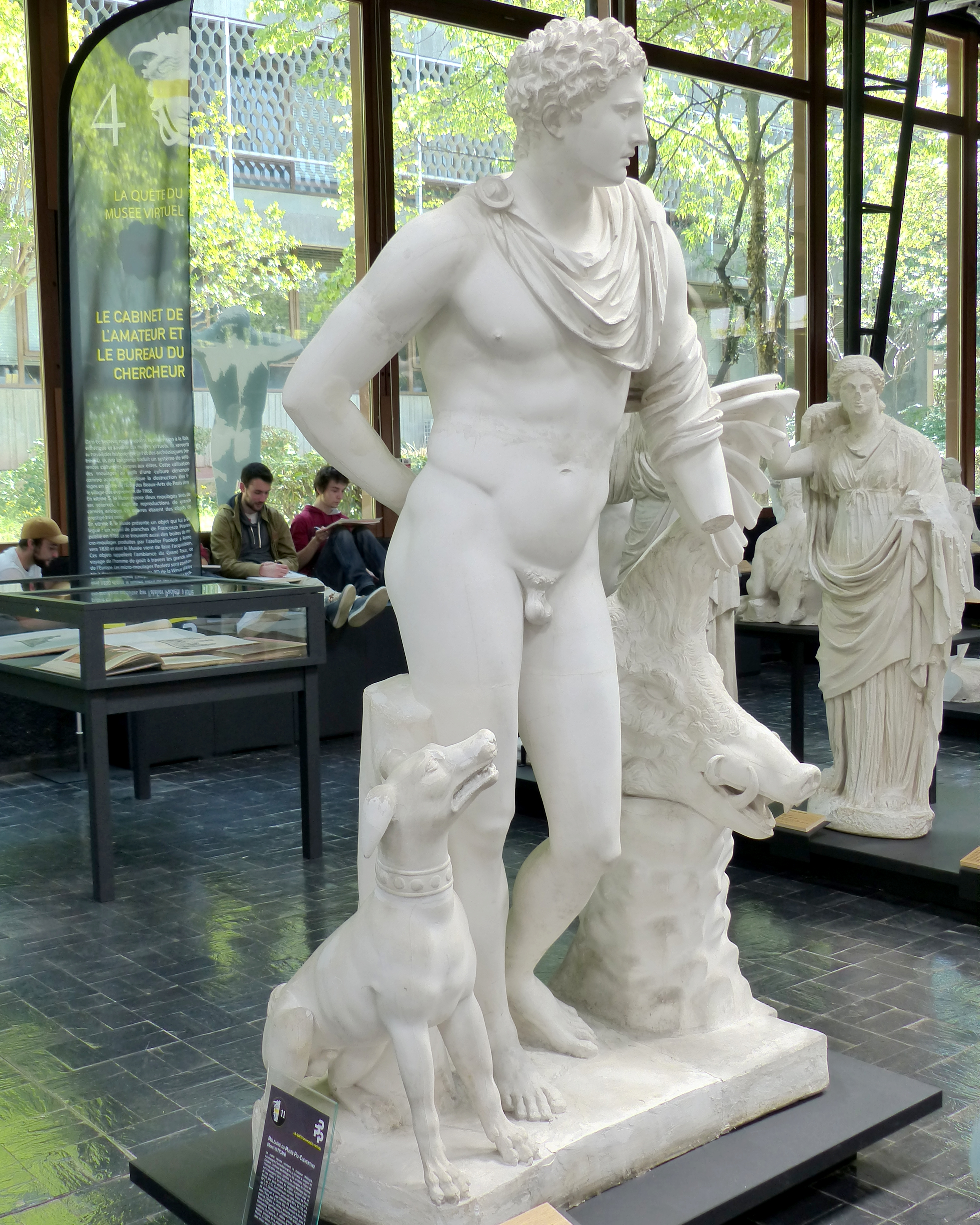 Montpellier (Hérault, Occitanie, France), Paul Valery University, Castings' Museum, plaster prints collection of major sculptures of Antiquity. Roman copy of the 2nd century AD of a Greek original in bronze, lost and attributed to Scopas from Paros, 4th century BC, acquired by Pope Clement XIV in 1770, rapted by Napoleon 1st for the Louvre then returned at the end of the Empire, preserved at the Pio-Clementino Museum of the Vatican in Rome.